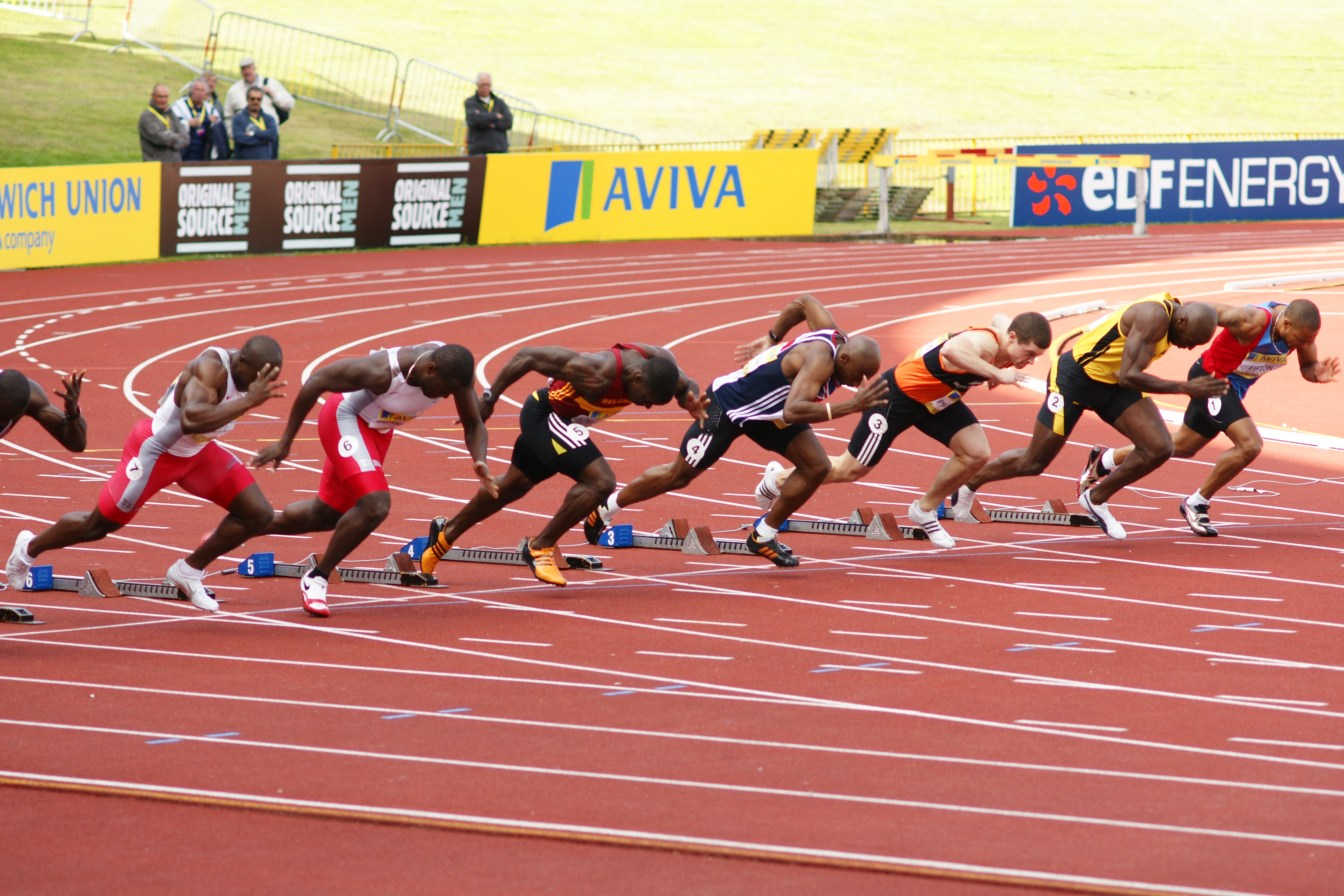 Craig Pickering, Simeon Williamson, Ricki Fifton, Dwain Chambers, Marlon Devonish go head-to-head at Alexander Stadium. Chambers won in 10s dead, but subsequently failed in his efforts to go to Beijing